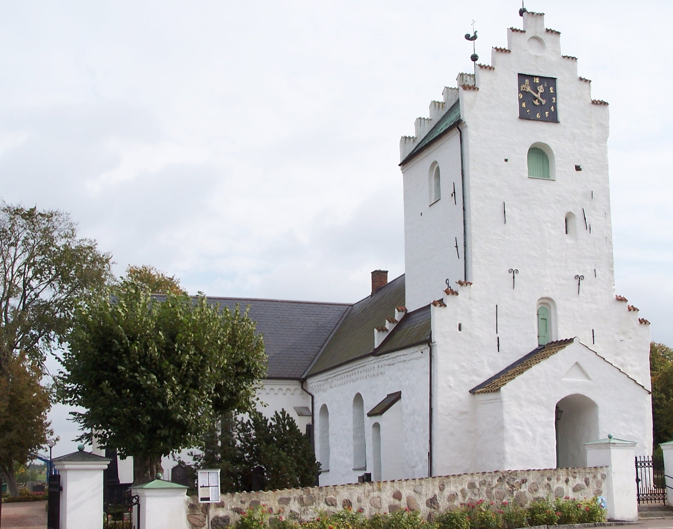 Södra Sallerup church, Sweden